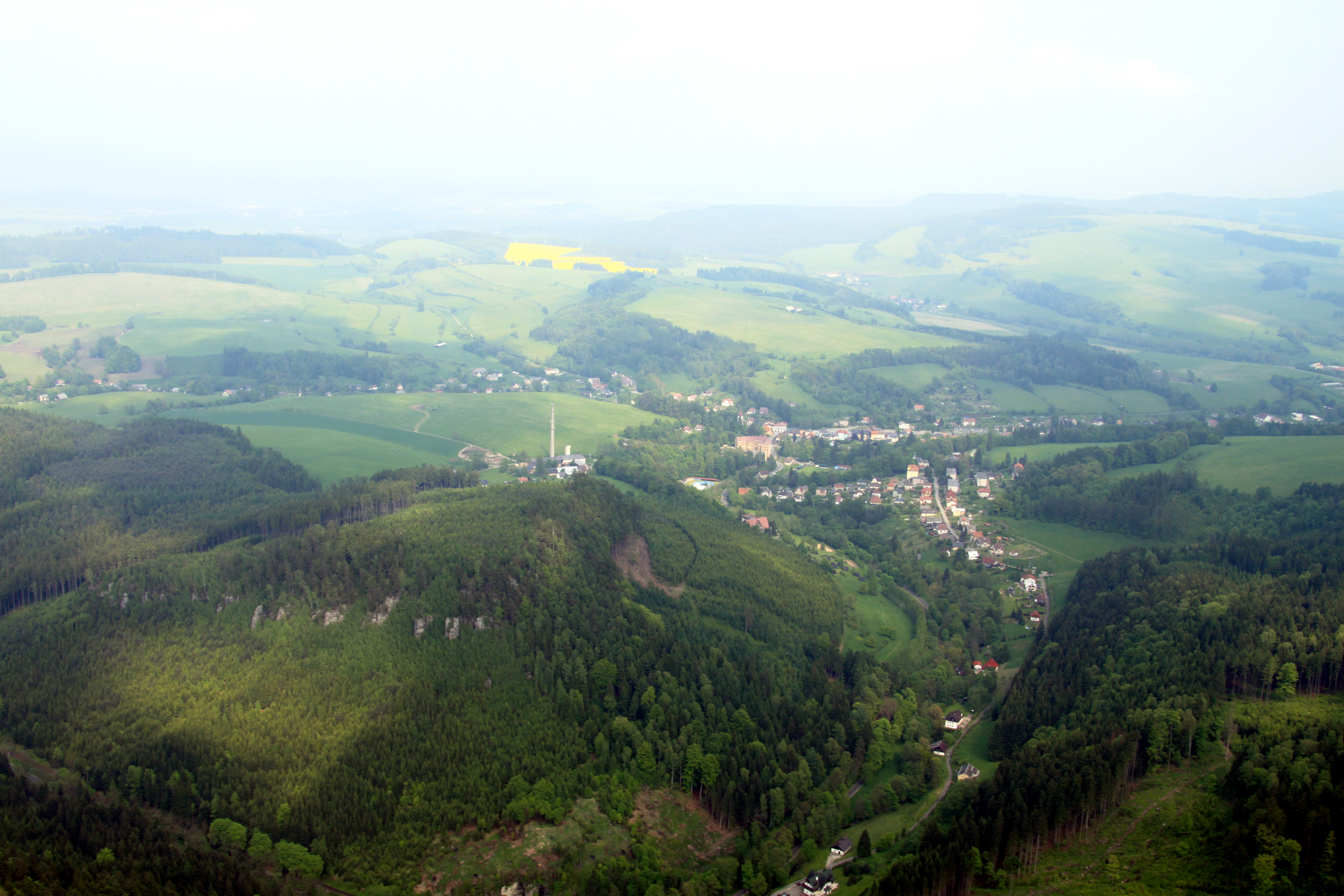 Small town Teplice nad Metují from air, eastern Bohemia, Czech Republic